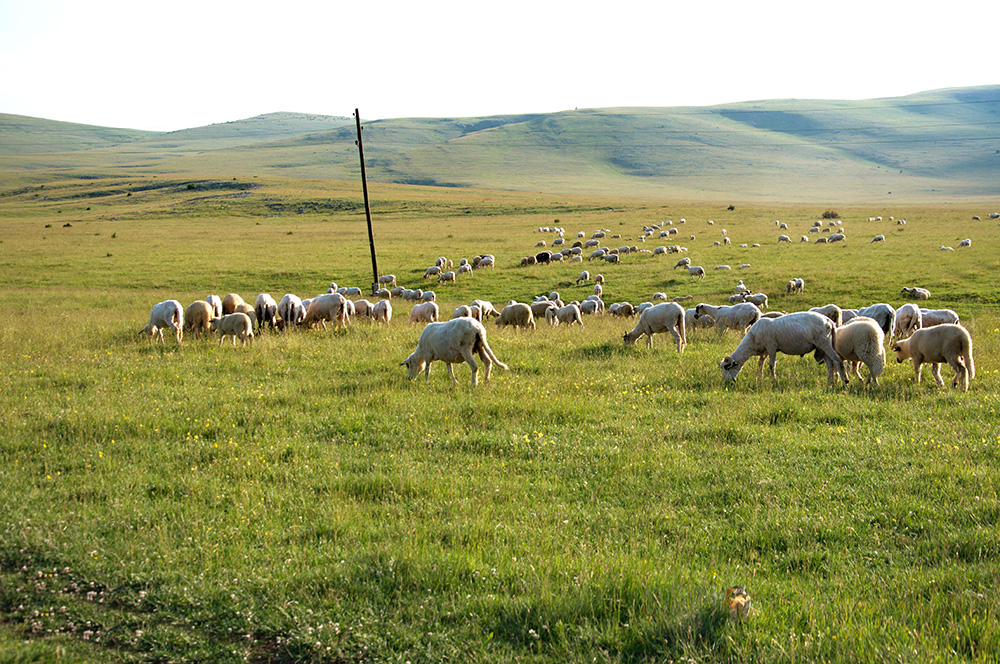 Panoramic scenes of the Pester plateau, karst region in southwestern Serbia. It situated in the area of Raska. The most part of Pešter is located in the municipality of Sjenica. The relief of Pester Plateau is characterized by low, hilly terrain, streams of clean water and vast meadows that are used for grazing sheep and cattle. Pester field is a region of outstanding natural value. A part of Pester is the Uvac River Canyon. In the canyon of the river Uvac nests large colony of eagles, vultures - Gyps fulvus.